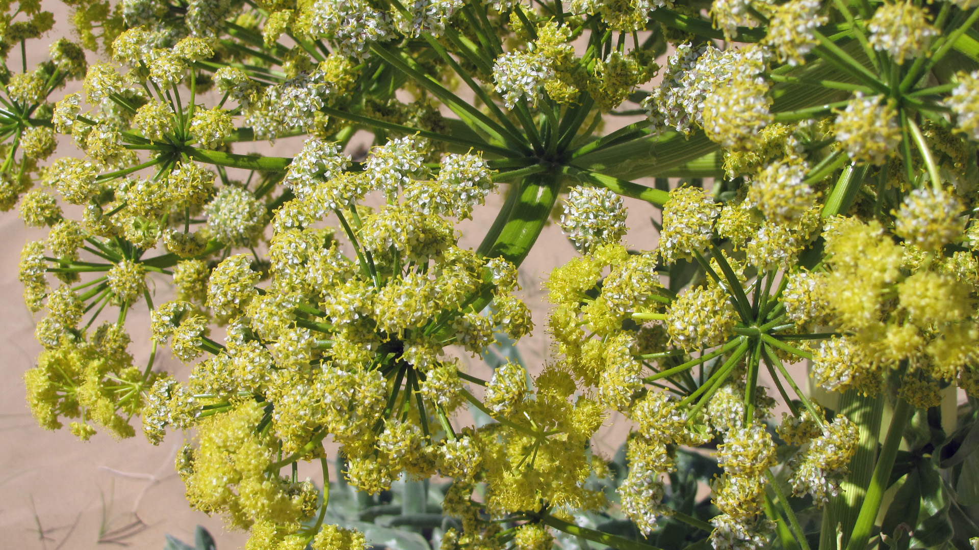 Ferula assa-foetida near the fortress of Ayaz Kala in the republic of Karakalpakstan and the Kyzyl Kum desert in Uzbekistan.